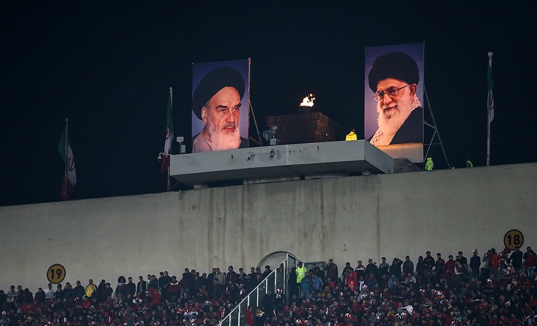 Persepolis FC v Kashima Antlers (0-0), 2018 AFC Champions League Final, Second leg, 10 November 2018